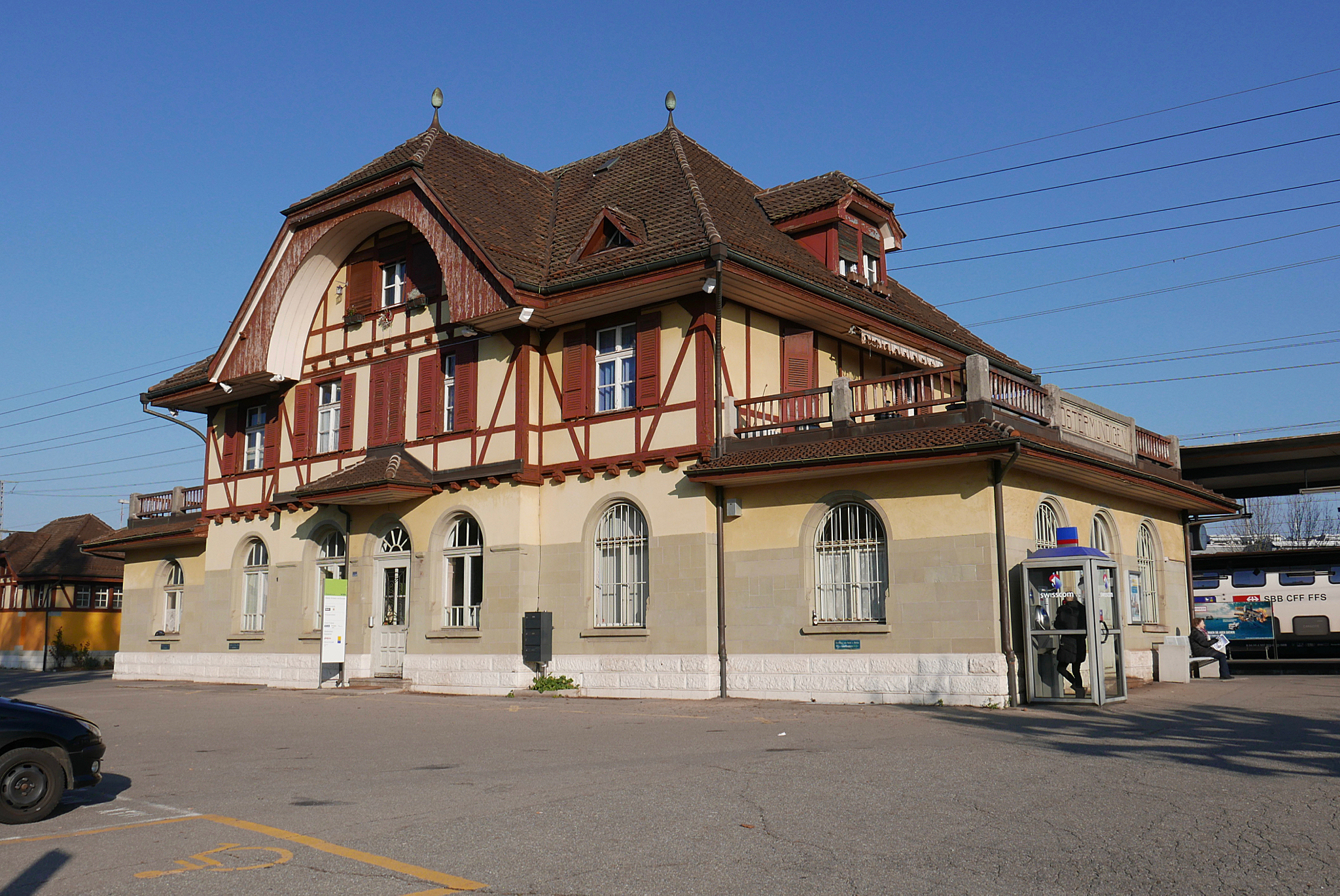 Ostermundigen railway station.